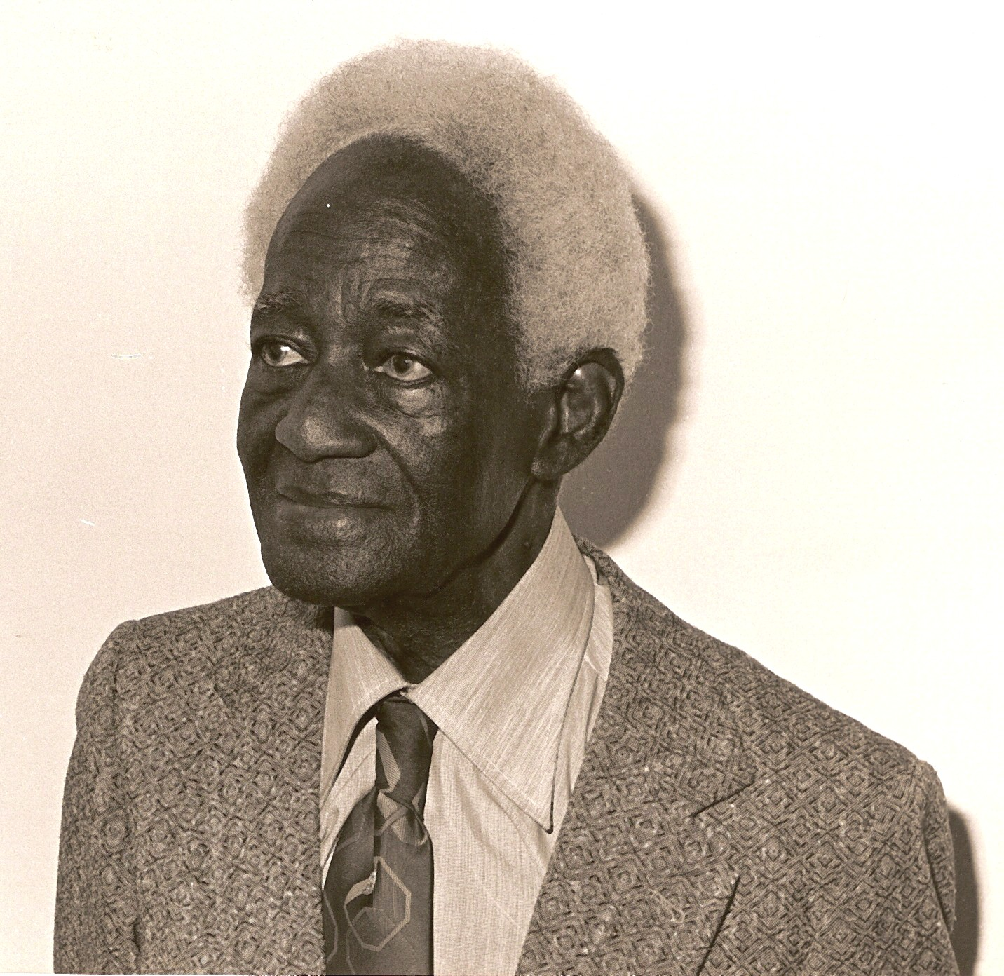 Eugene Rellum, poet from Suriname